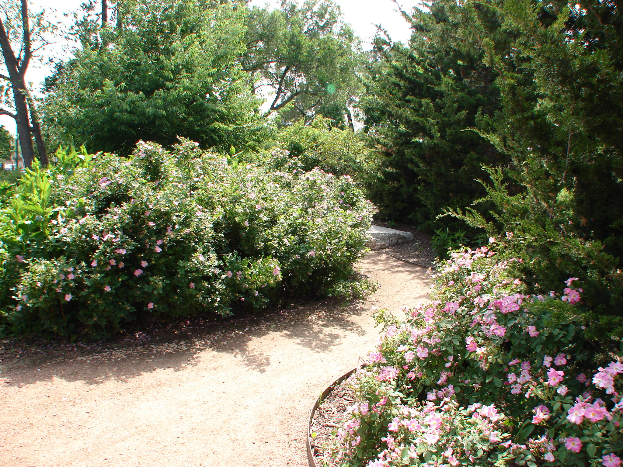 path in Chicago's Portage Park